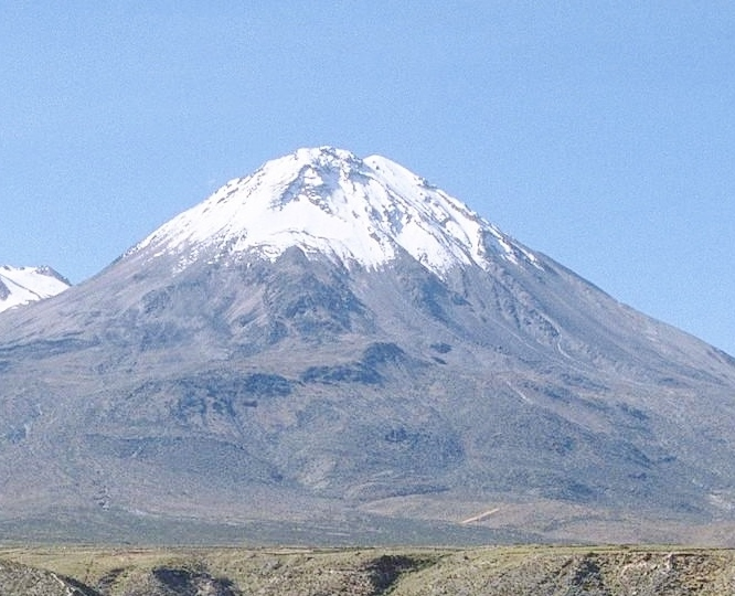 Mount Yucamane